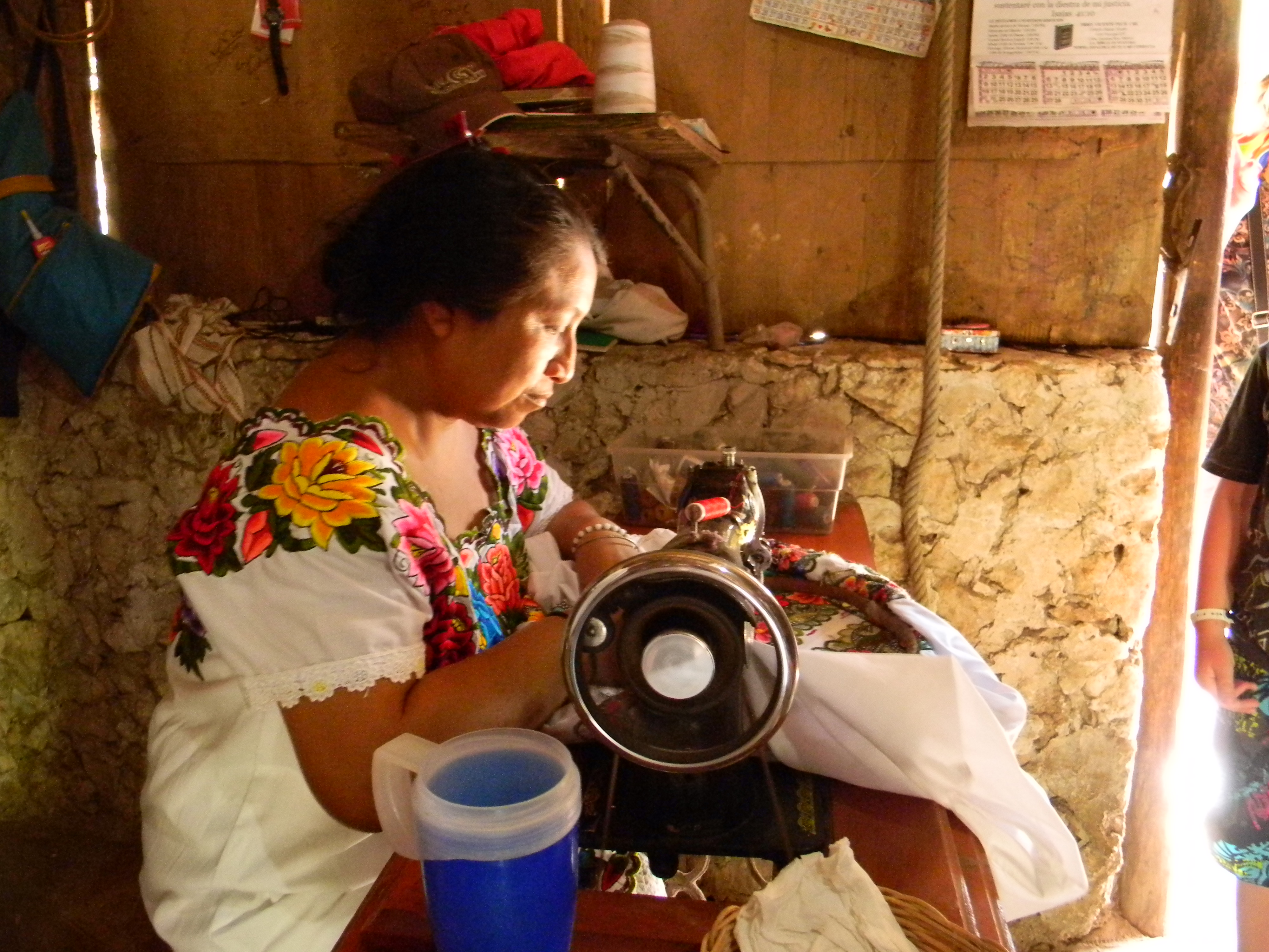 Cobá Village Pacchen, Maya women - Souvenir makers